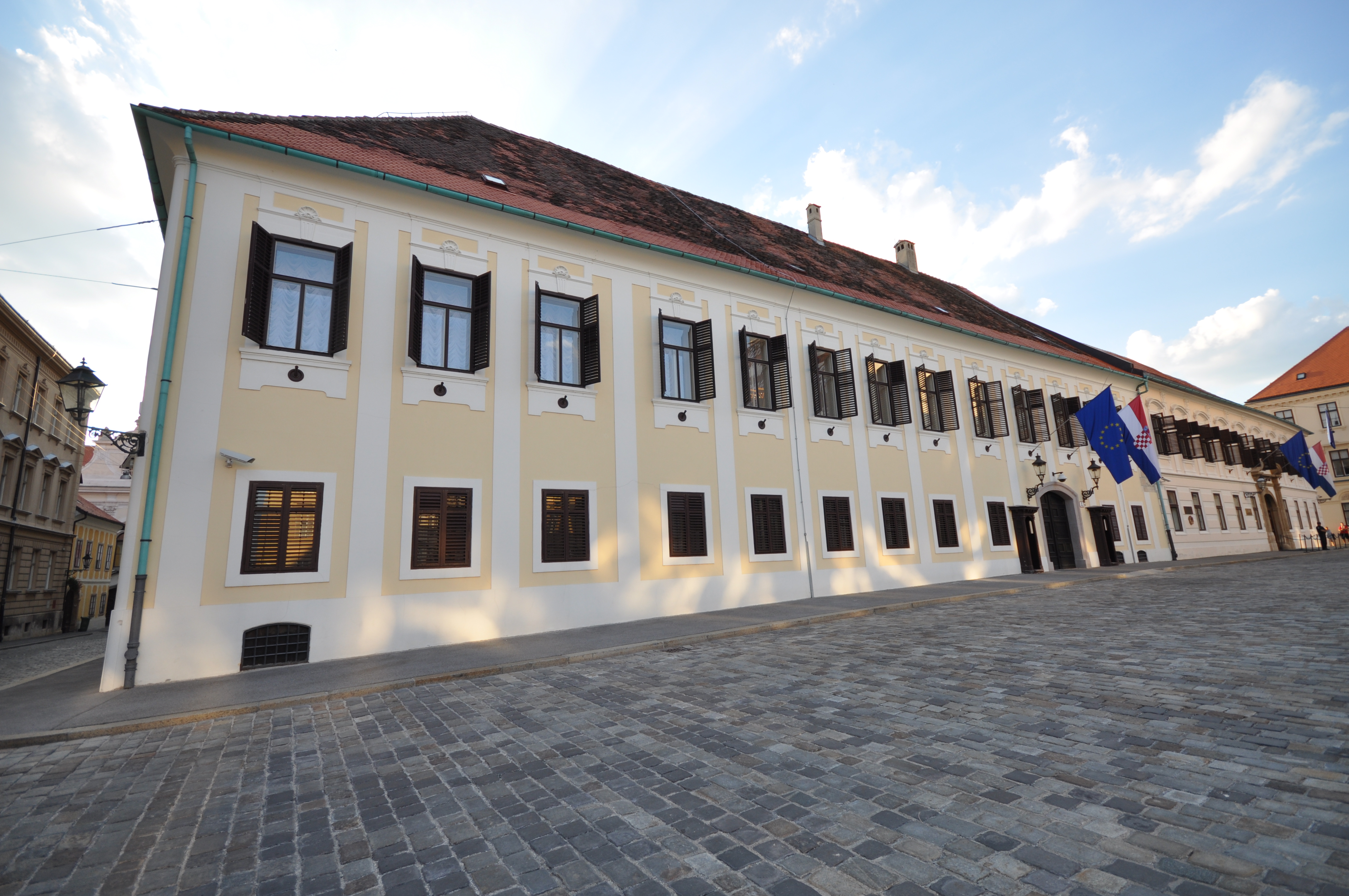 St. Mark's Square (Croatian: Trg svetog Marka) is a square located in the old part of Zagreb, Croatia. In the center of square is located St. Mark's Church. The square also sports important governmental buildings: Banski dvori (the seat of the Government of Croatia), Croatian Parliament (Croatian: Hrvatski sabor) and Constitutional Court of Croatia. On the corner of St. Mark's Square and the Street of Ćiril and Metod is the Old City Hall, where the Zagreb City Council held its sessions. In 2006 the square has undergone through renovation project. Since August 2005, the Government forbid any form of protests on St. Mark's square which caused many controversies in Croatian's "civil society". This ban was partially lifted in 2012. The square is also the site of the inaugurations of Croatia's presidents. Franjo Tuđman took his oath as President of the Republic in 1992 and 1997, Stjepan Mesić in 2000 and 2005 and Ivo Josipović in 2010